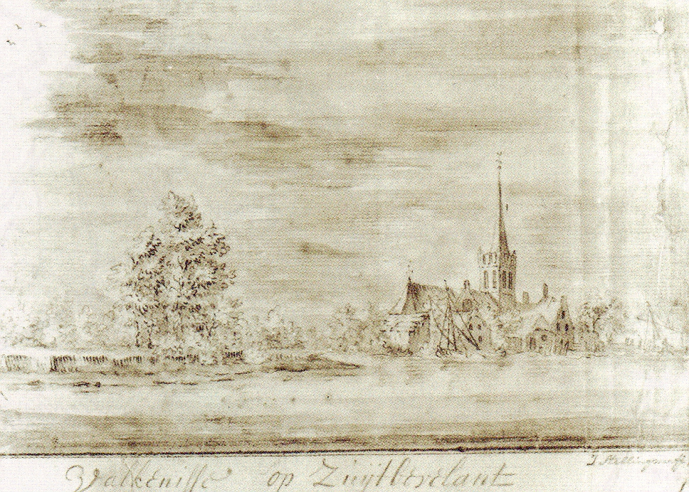 Valkenisse, Zuid-Beveland